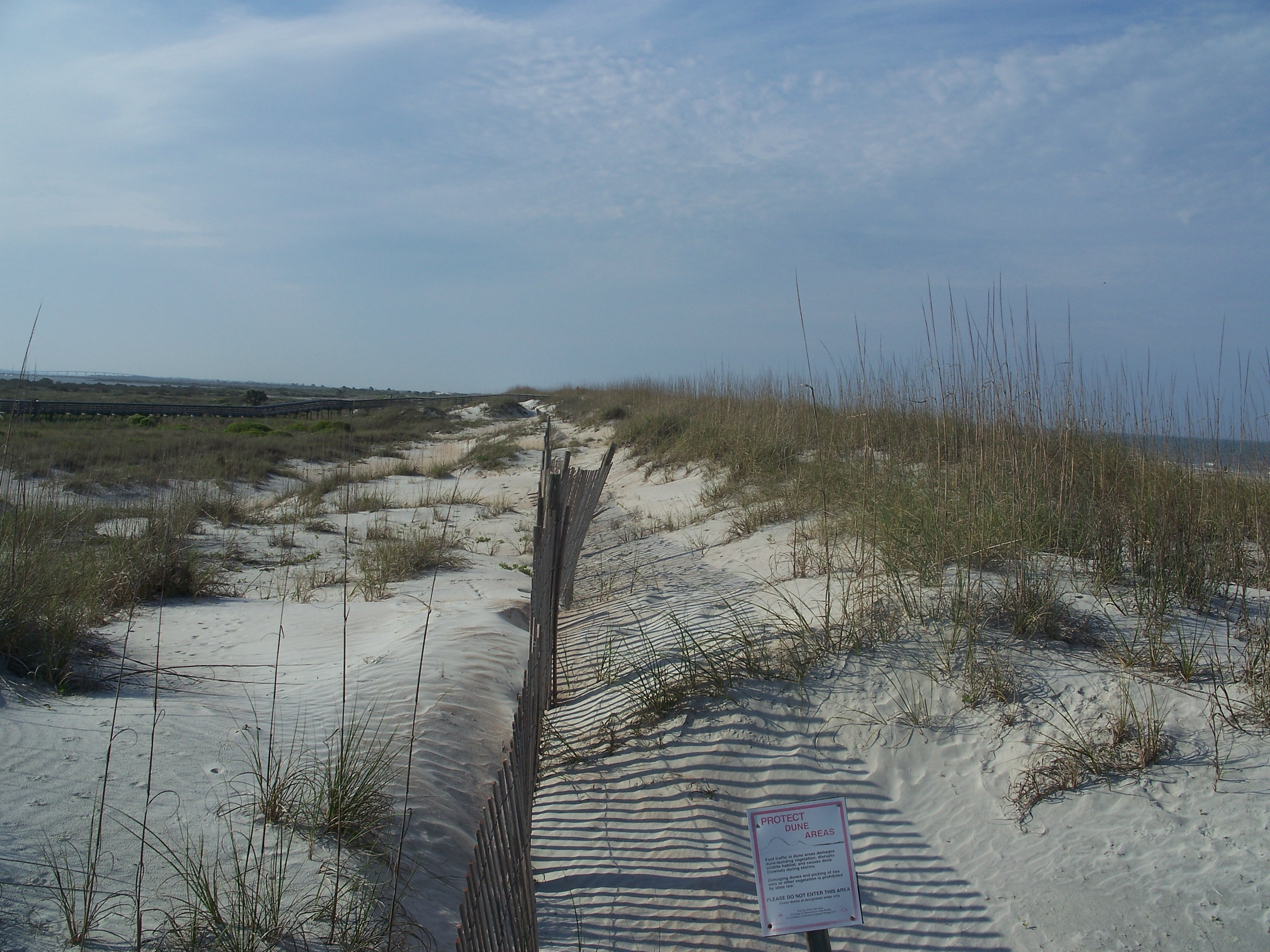 Florida: Anastasia State Park: Dunes on the beach.